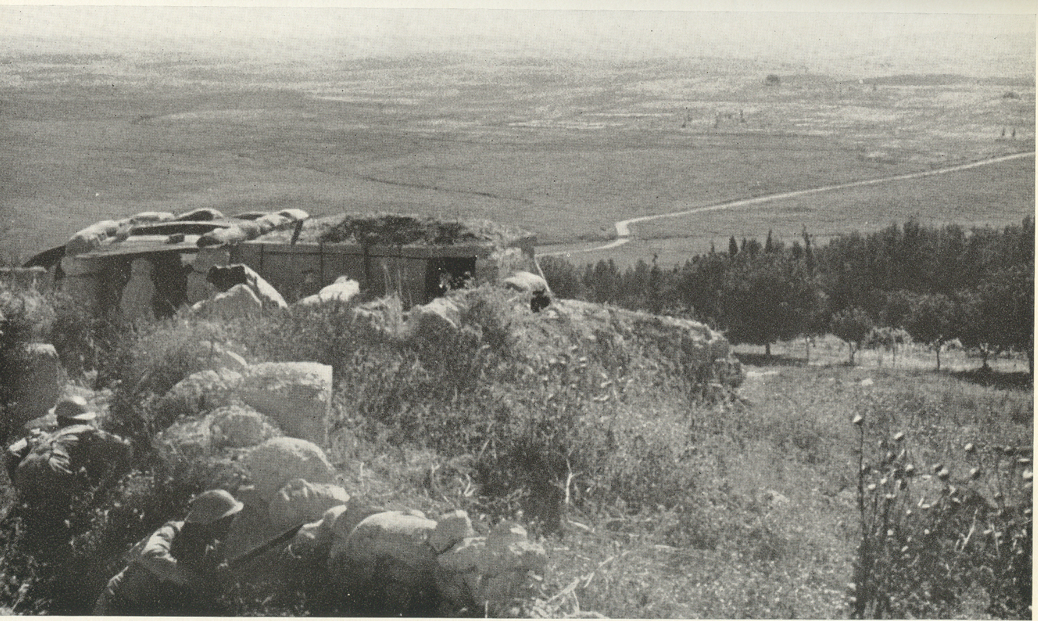 The view West from Arab Legion positions at Latrun